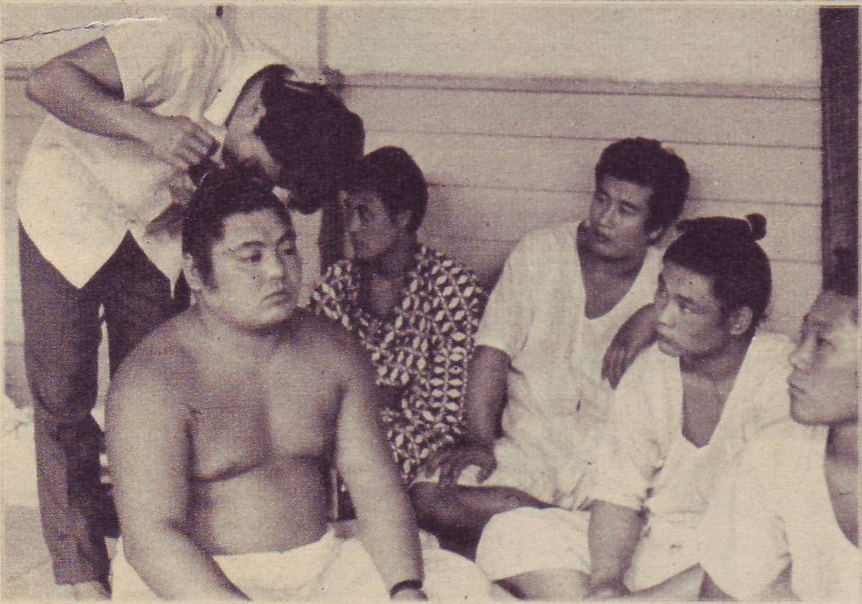 Toyokuni Susumu and Yutakayama Katsuo (Third from right). taken in 1961.